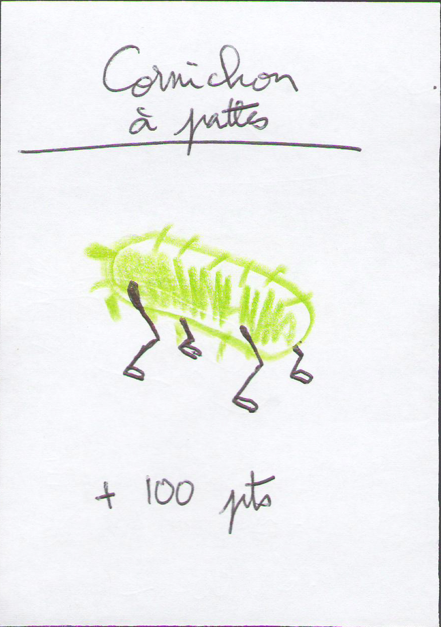 A card from the 1000 blank white cards game (Pickle)